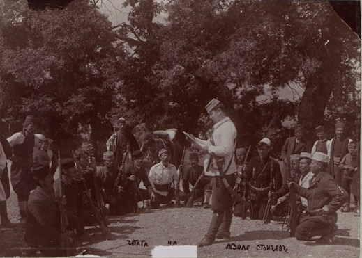 Photo album with photographs of Bulgarian detachment and events from the social and political life of the Bulgarian population in Bitola.